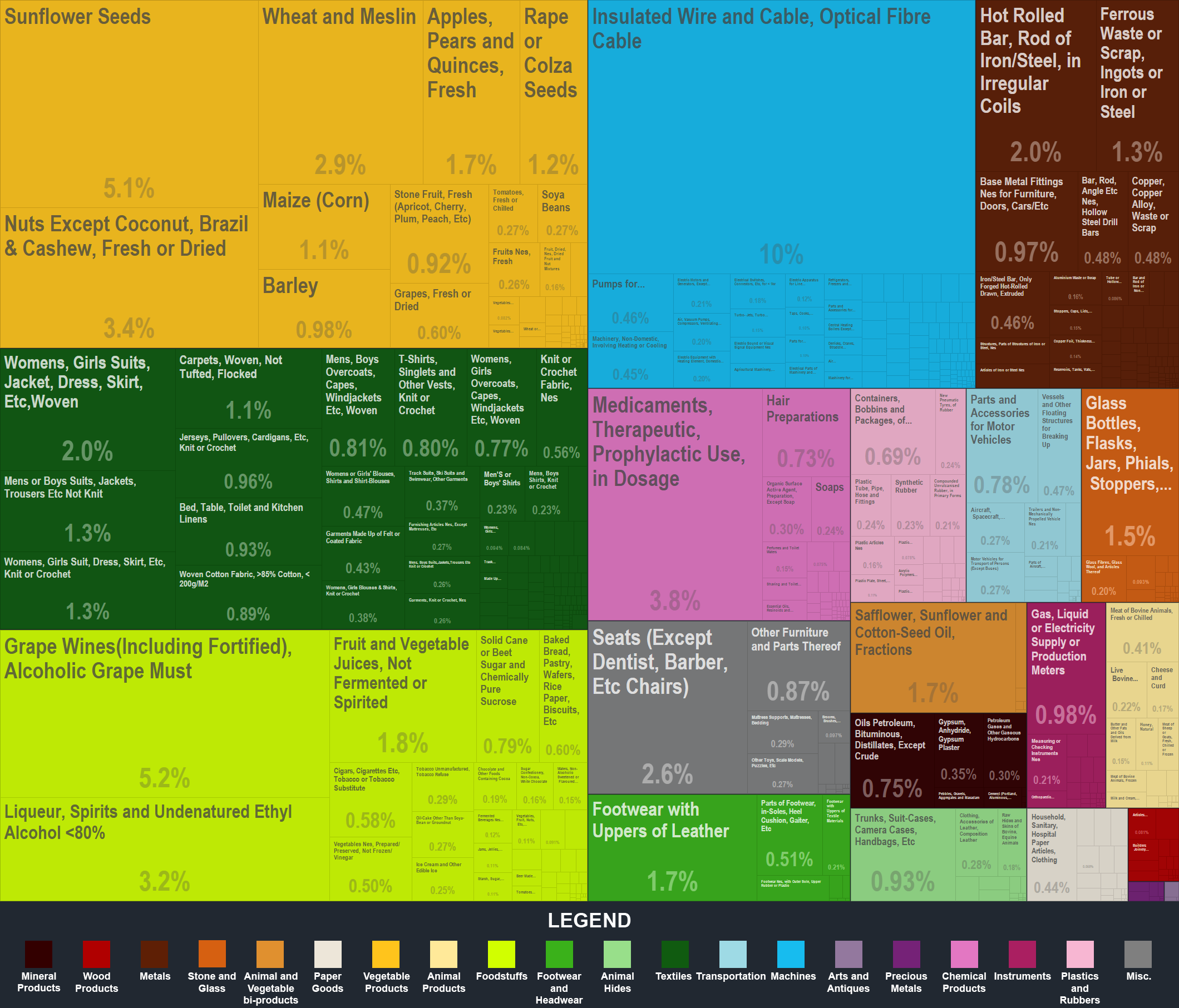 A proportional representation of Republic of Moldova's exports for 2013.